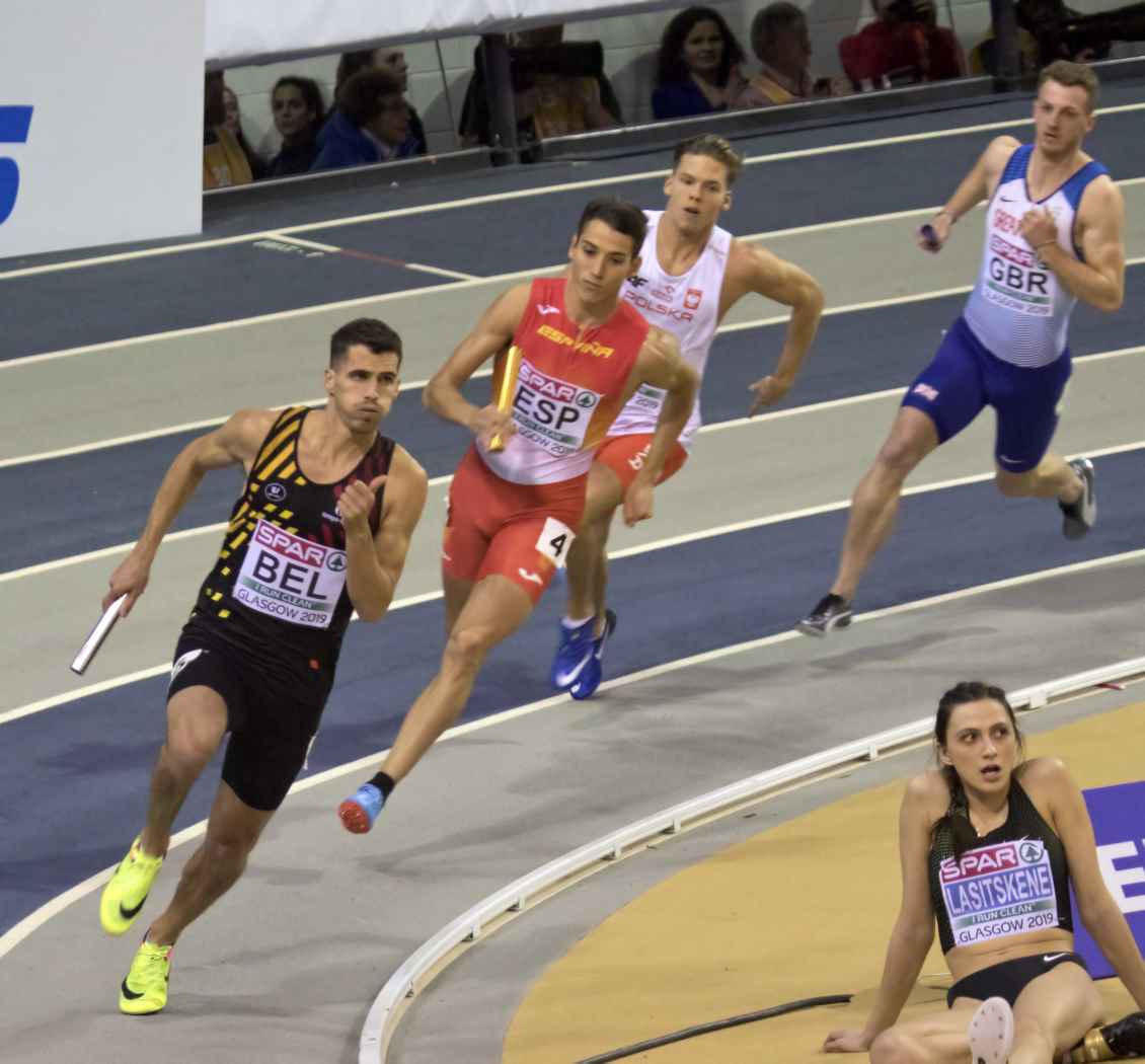 EKI30618 4x400m heren jonathan borlée